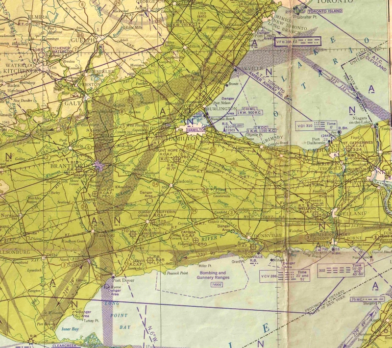 The region of southern Ontario where many of the activities of RCAF Station Guelph and No. 4 Wireless School took place. Guelph is located in the upper left corner in the tan area. Burtch, is south of Brantford, and St. Catharines is near the right of the frame on the south shore of Lake Ontario. No. 1 Bombing and Gunnery School, Jarvis, is on the north shore of Lake Erie.